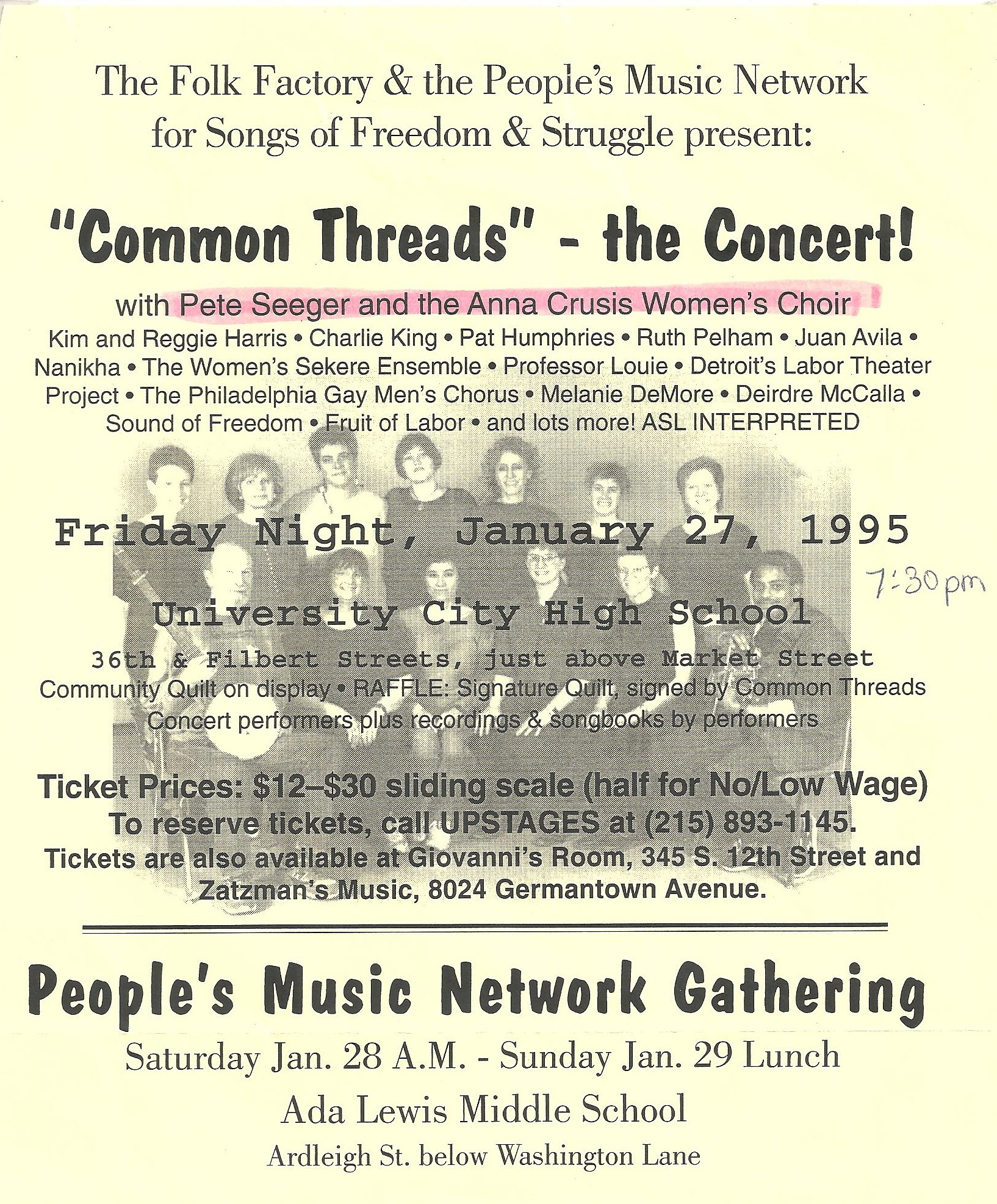 Poster for the January 27, 1995 Anna Crusis Women's Choir concert, with guests Pete Seeger and Reggie Harris. The poster includes the following text, and a photograph of choir members and guests. The text of the poster reads: "The Folk Factory & the People's Music Network for Songs of Freedom & Struggle present: "Common Threads" - The Concert! with Pete Seeger and the Anna Crusis Women's Choir Kim and Reggie Harris . Charlie King . Pat Humphries . Ruth Pelham . Juan Avila . Nanikha . The Women's Sekere Ensemble . Professor Louie . Detroit's Labor Theaer Project . The Philadelphia Gay Men's Chorus . Melanie DeMore . Deirdre McCalla . Sound of Freedom . Fruit of Labor . and lots more! ASL INTERPRETED Friday Night, January 27, 1995 University City High School 36th & Filbert Streets, just above Market Street Community Quilt on display . RAFFLE: signature quilt, signed by Common Threads Concert performers plus records & songbooks by performers Ticket prices: $12-$30 sliding scale (half for No/Low Wage) To reserve tickets, call UPSTAGES at (215)893-1145. Tickets are also available at Giovanni's Room, 345 S. 12th Street and Zatzman's Music, 8024 Germantown Avenue. People's Music Network Gathering Saturday Jan. 28 A.M. - Sunday Jan. 29 Lunch Ada Lewis Middle School Ardleigh St. below Washington Lane" People in the photograph include, in the back row, left to right, Claire Baker, Janis Brodie, Deirdre Wilson, Aileen Querry, Jane Hulting, Jenny Heitler-Klevans, Debra D'Alessandro; in the front row, left to right, Pete Seeger, Marianna Eckardt, Lydia Oey, Jennifer Raison, Jeanne Cribben, Regis (Reggie) Harris.